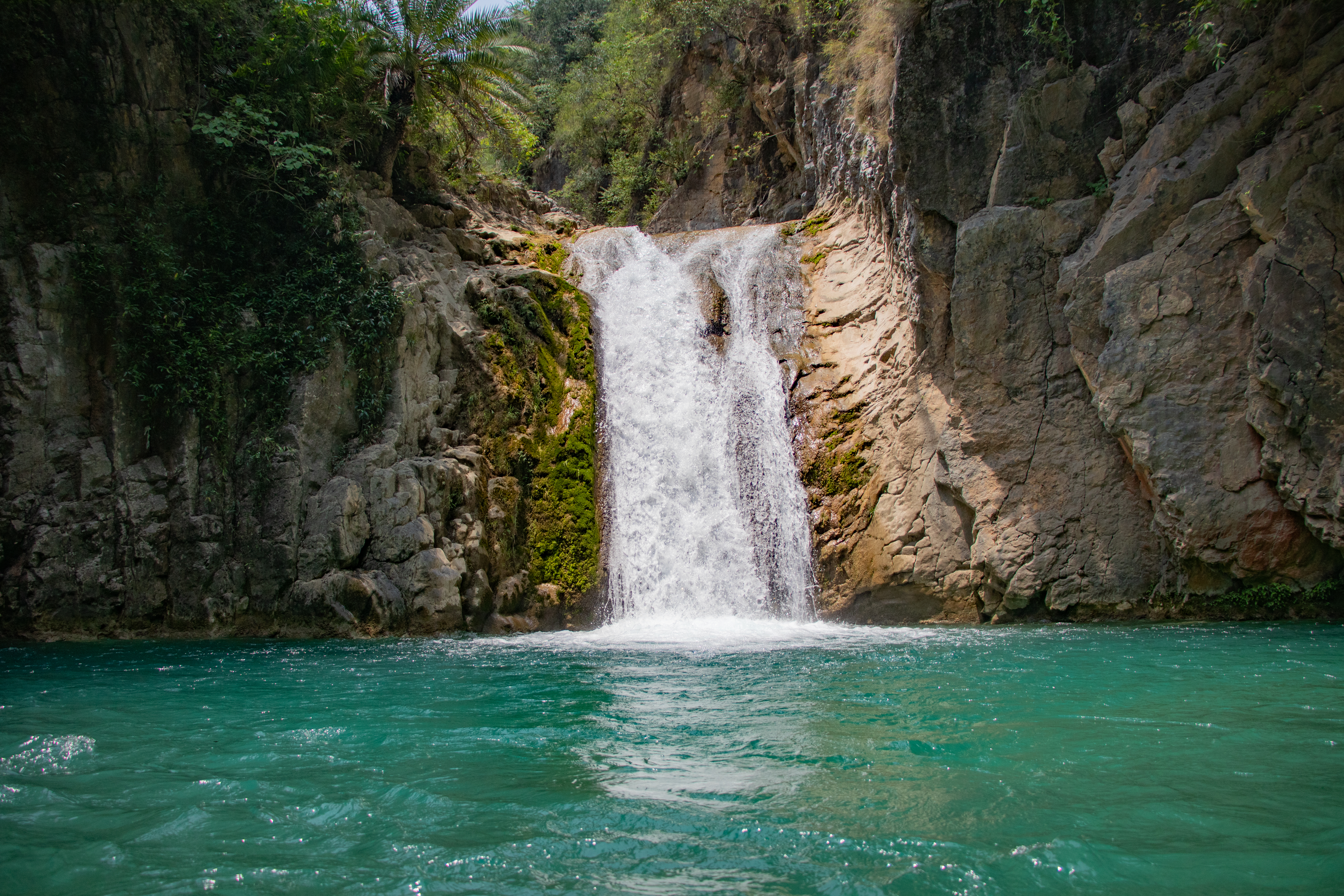 Noori waterfall is located in between the two villages of Tial and Jabbri of district Haripur on the banks of river Haro in Khyber Pakhtunkhwa province of Pakistan.